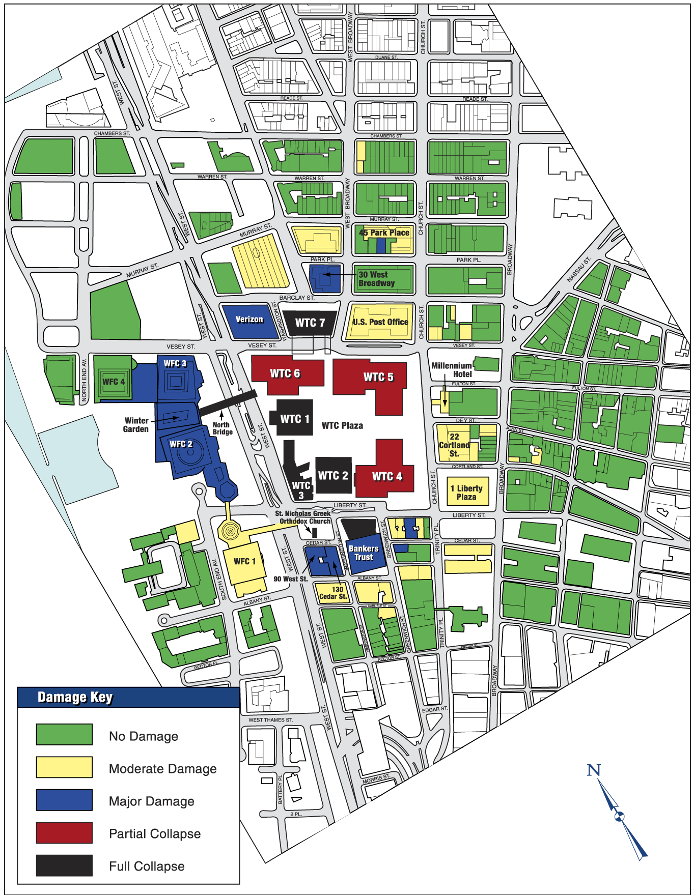 New York City DDC/DoB Cooperative Building Damage Assessment Map of November 7, 2001 (based on SEAoNY inspections of September and October 2001)